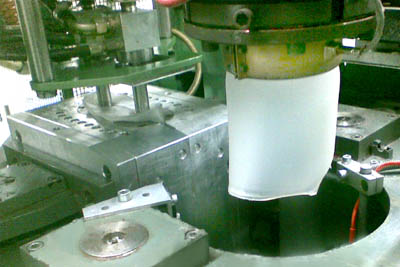 Extrusion blow molding